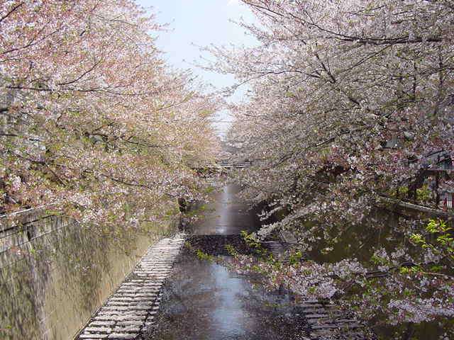 (Cherry blossoms along Meguro River, Meguro Ward in Tokyo)